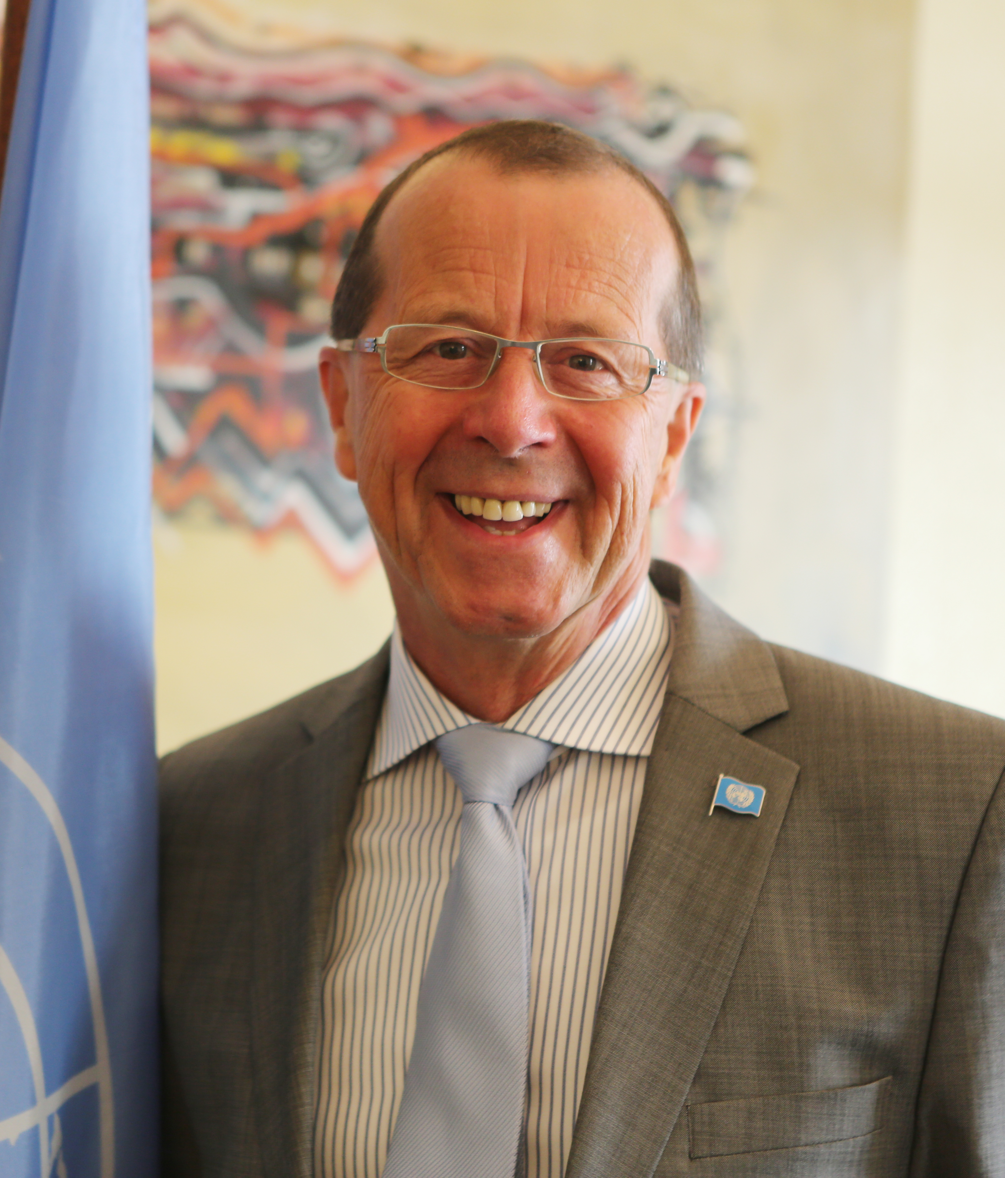 DRC. Kinshasa. MONUSCO HQ. 13th of august 2013. Arrival of the new MONUSCO SRSG Martin Kobler.